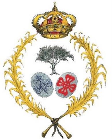 Escudo de la Hermandad del Prendimiento de Ciudad Real